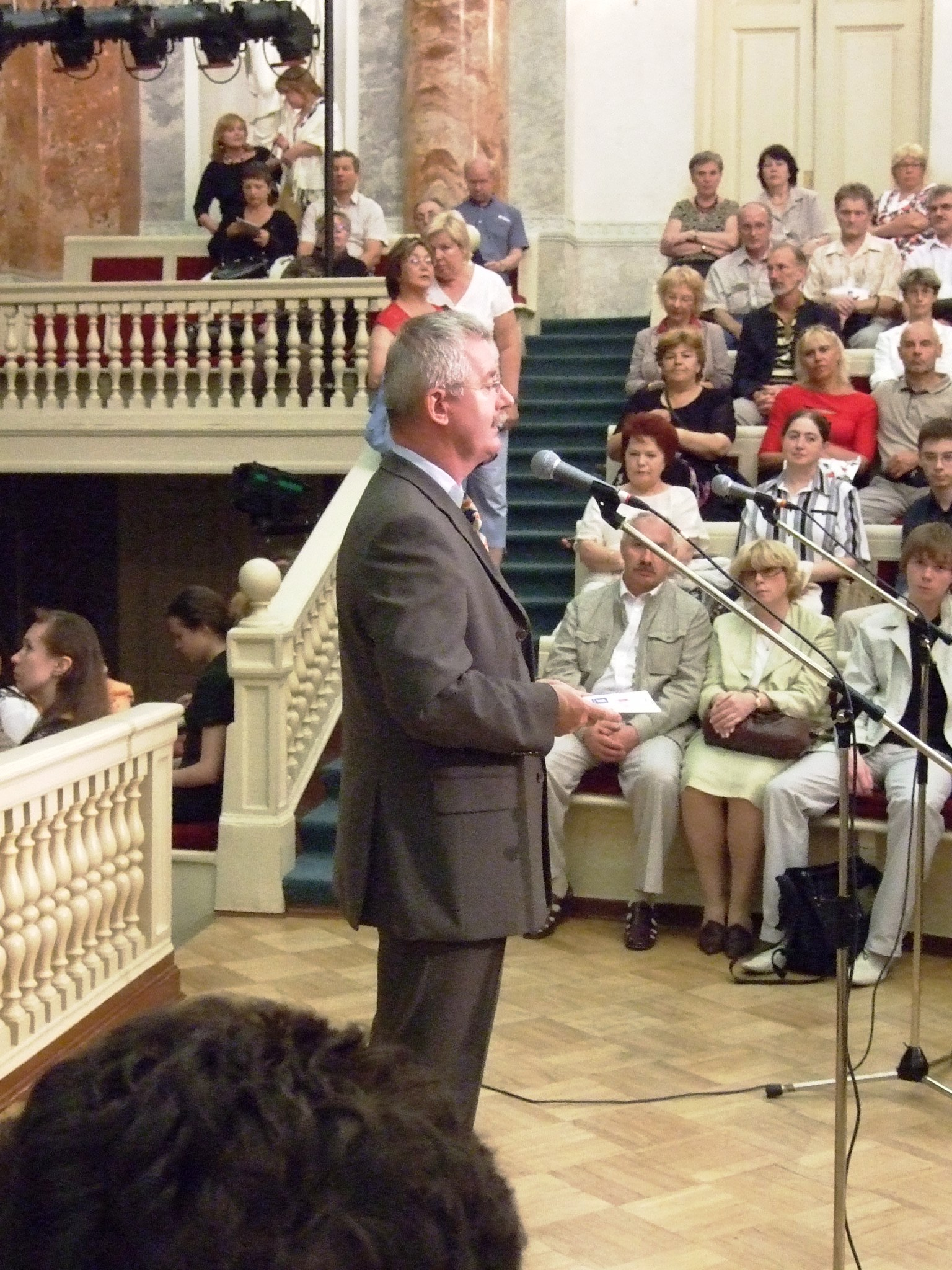 Jarosław Drozd, Consul-General of Poland in Saint-Petrsburg